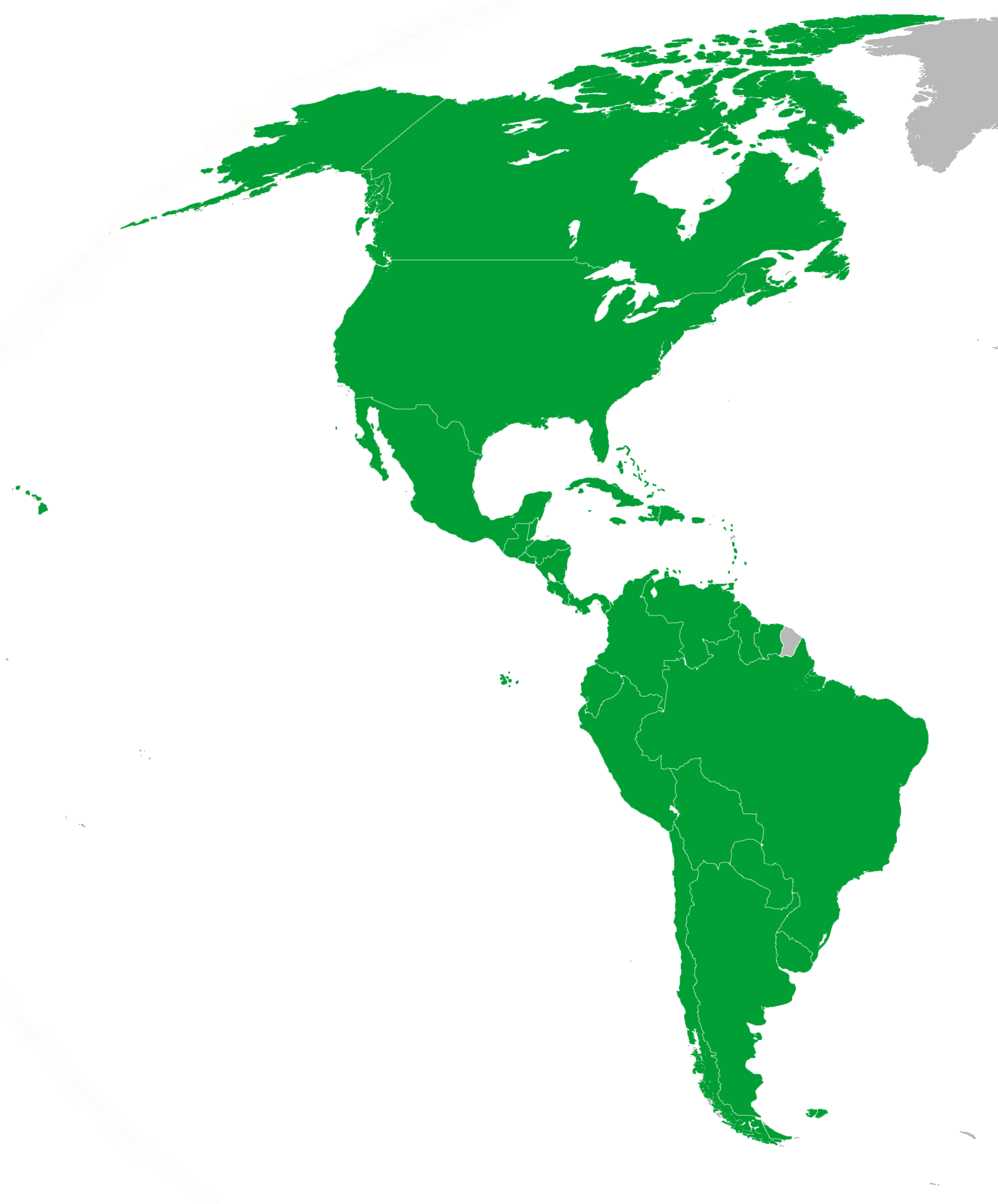 maps of the states members of PASO